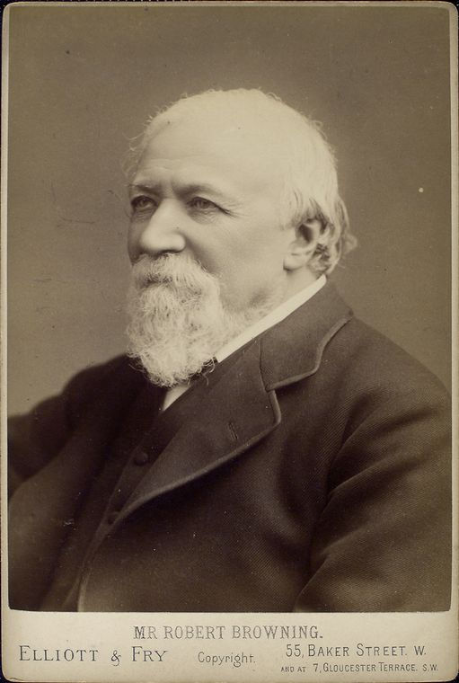 Robert Browning, British poet, during his later years